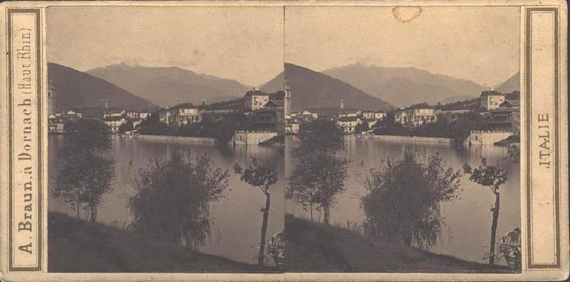 Adolphe Braun (1811-1877), Lake Maggiore - Pallanza- View taken from the Isola S. Giovanni. Catalogue # 3610.